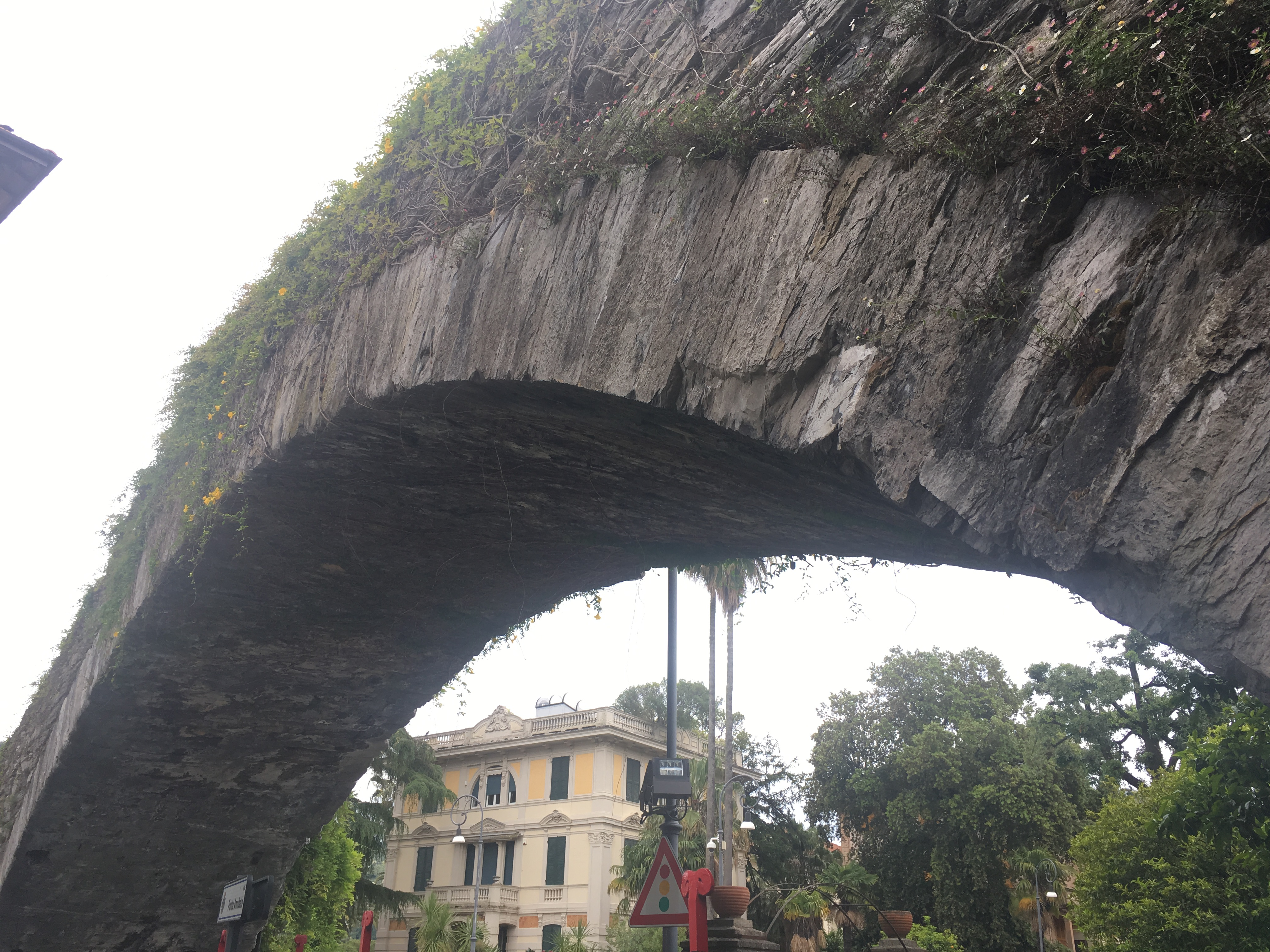 Modern view of Hannibal's Bridge in Rapallo Italy